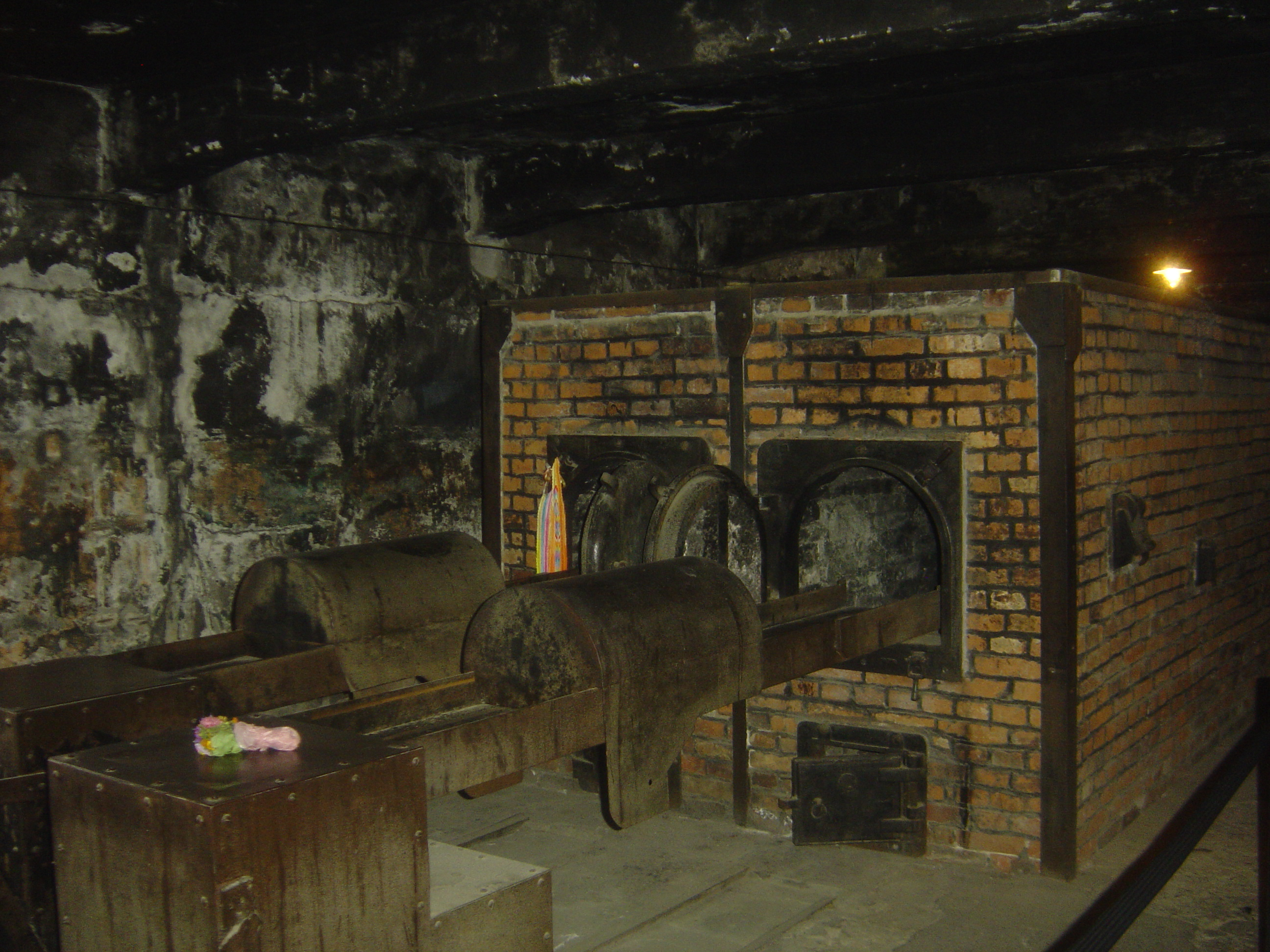 Auschwitz I, Ovens in a crematorium for burning corpses